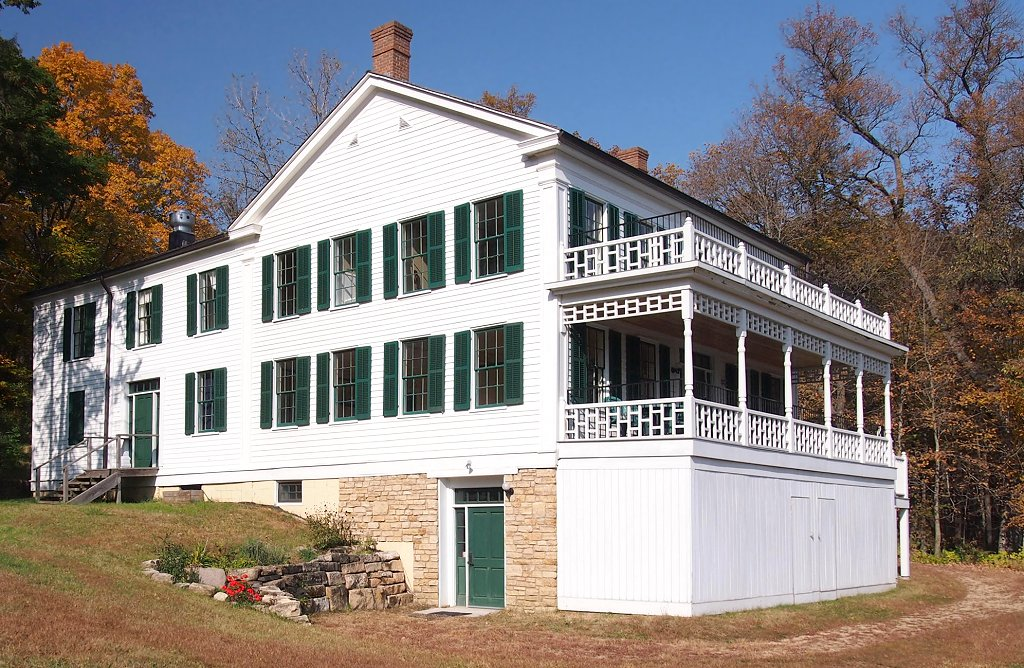 John and Martin Mower House, Stillwater, Minnesota, USA